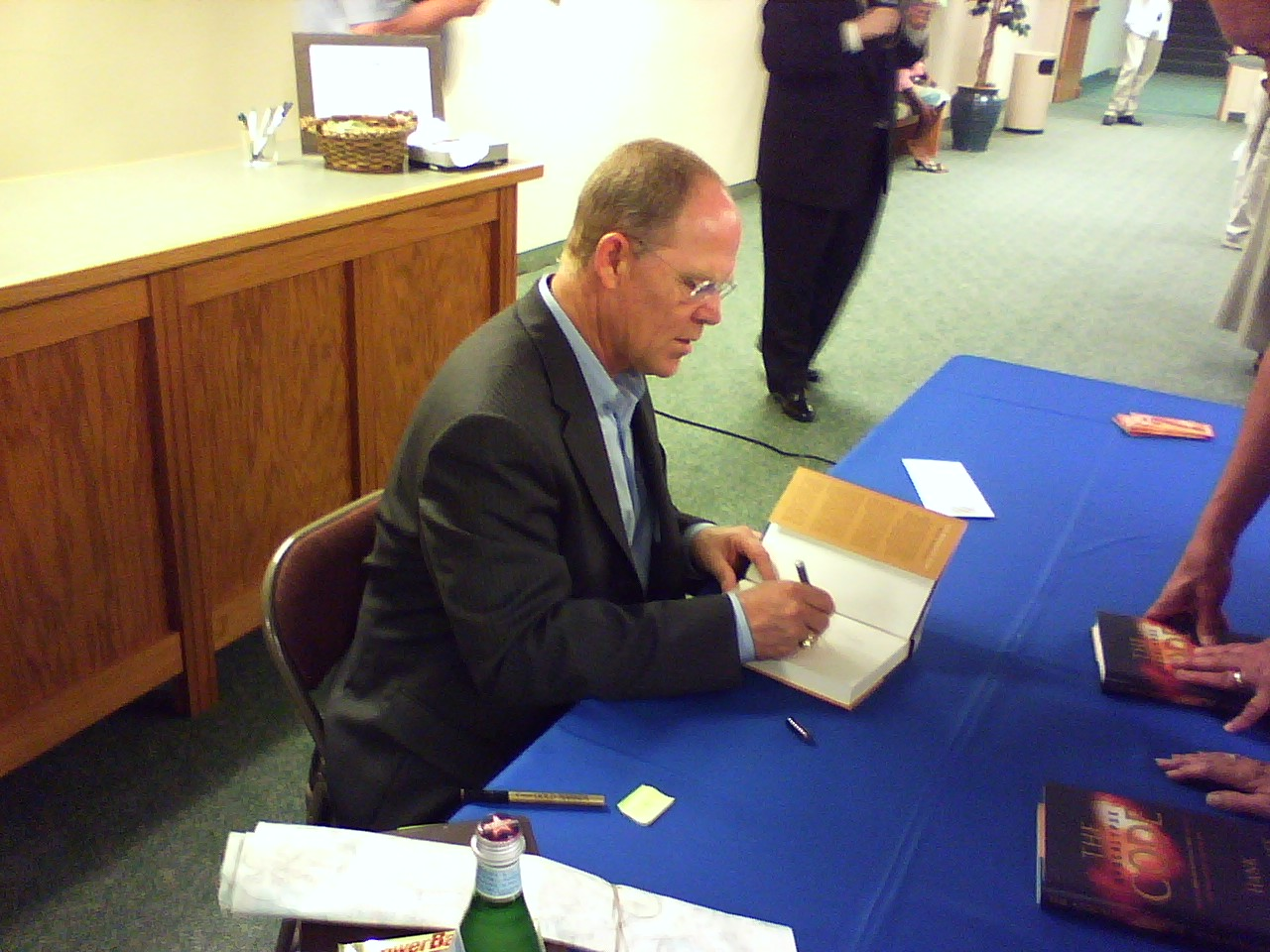 Hank Hanegraaff in St. Louis, Mo., August 30, 2007 (Tim Seidenstricker photo)